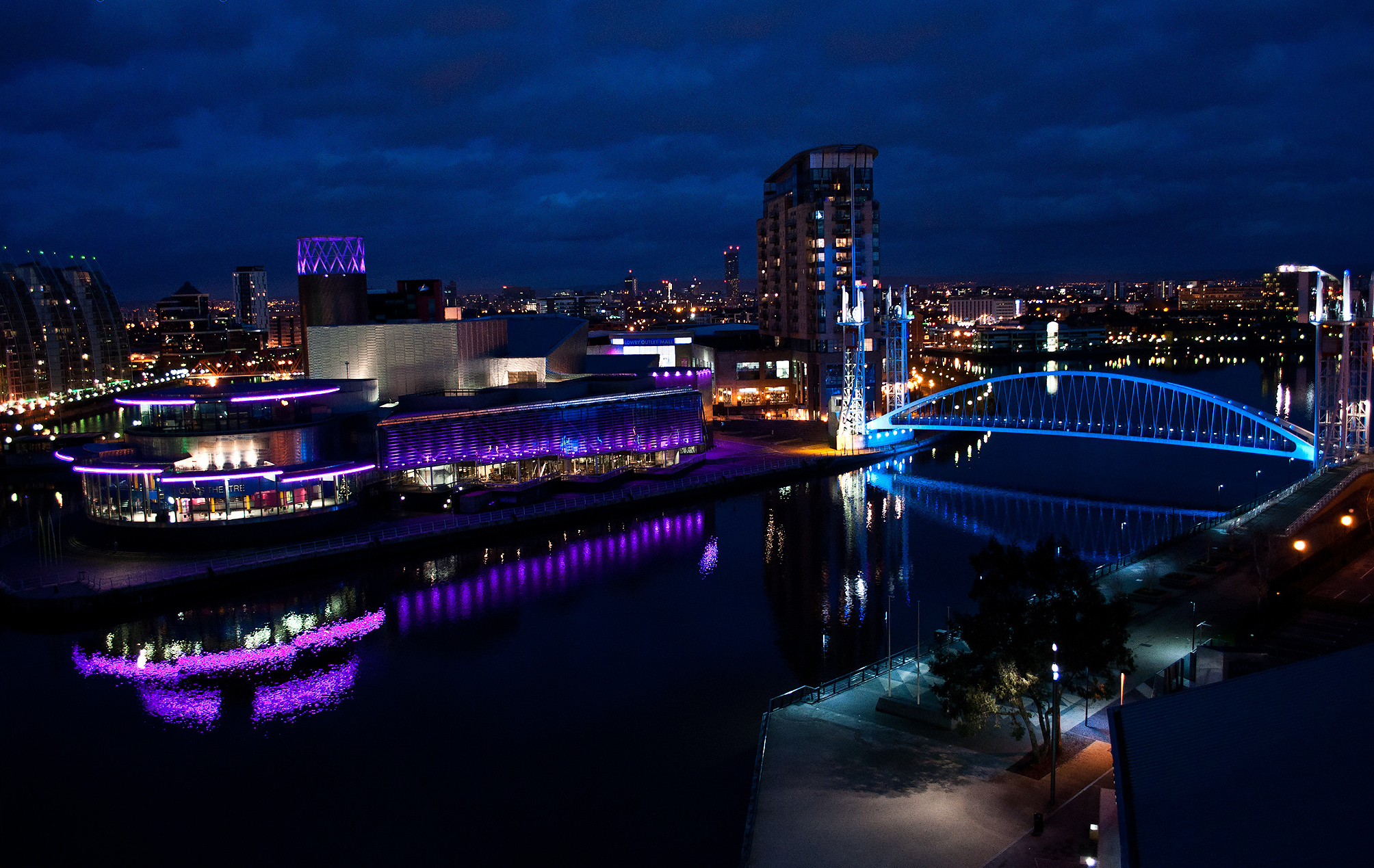 Salford Quays, Manchester